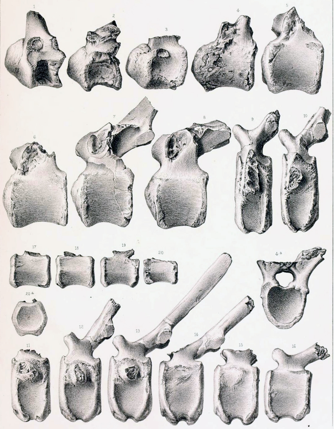 Left: This is Plate XI from "Cretaceous Reptiles of the United States" (1865). All of the fossils shown are vertebrae (neck, back and tail bones) from Hadrosaurus foulkii. The first thee vertebrae in the top row are cervical vertebrae (neck bones). The two remaining vertebrae in the top row and the first three from the second row are vertebrae from the back. The remaining vertebrae are from the tail. These vertebrae range from 5-8 inches (12-20 cm) in width. Right: This is Plate XIV from "Cretaceous Reptiles of the United States" (1865). All of these bones are from Hadrosaurus foulkii. The first four items in the top row are different views of the humerus (upper arm bone). The last two items in the top row are the radius and ulna (forearm bones). The first four items of the bottom row are metatarsi (foot bones), while the last two bones are phalanges (finger bones). The arm bones are each about 21 inches (55 cm) long. The metatarsi are about 11 inches (28 cm) long and the phalanges are about 6 inches (15 cm) long.